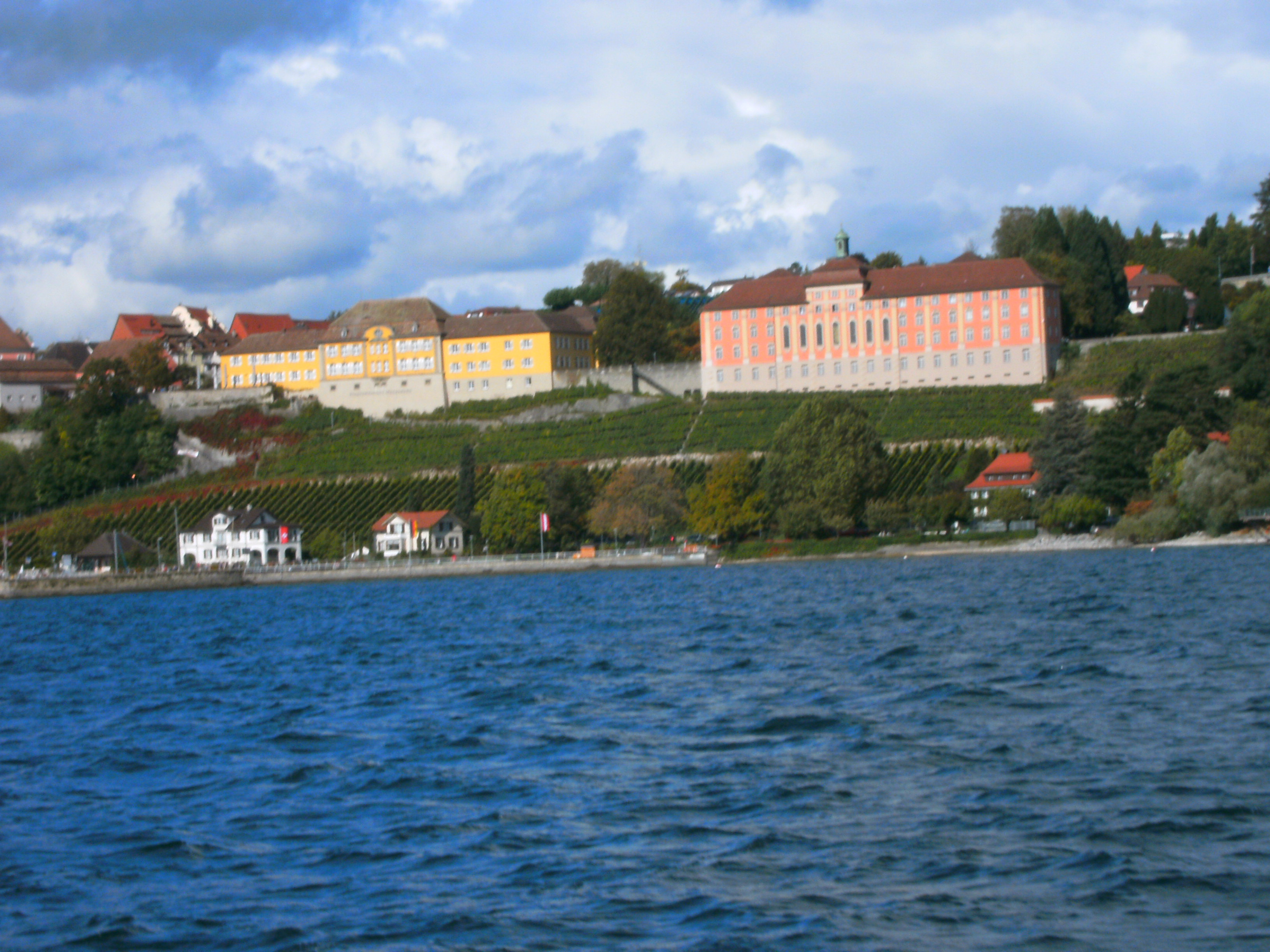 Meersburg, Germany, Staatsweingut und Droste-Hülshoff-Gymnasium vom See aus